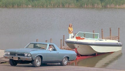 1968 Chevrolet El Camino